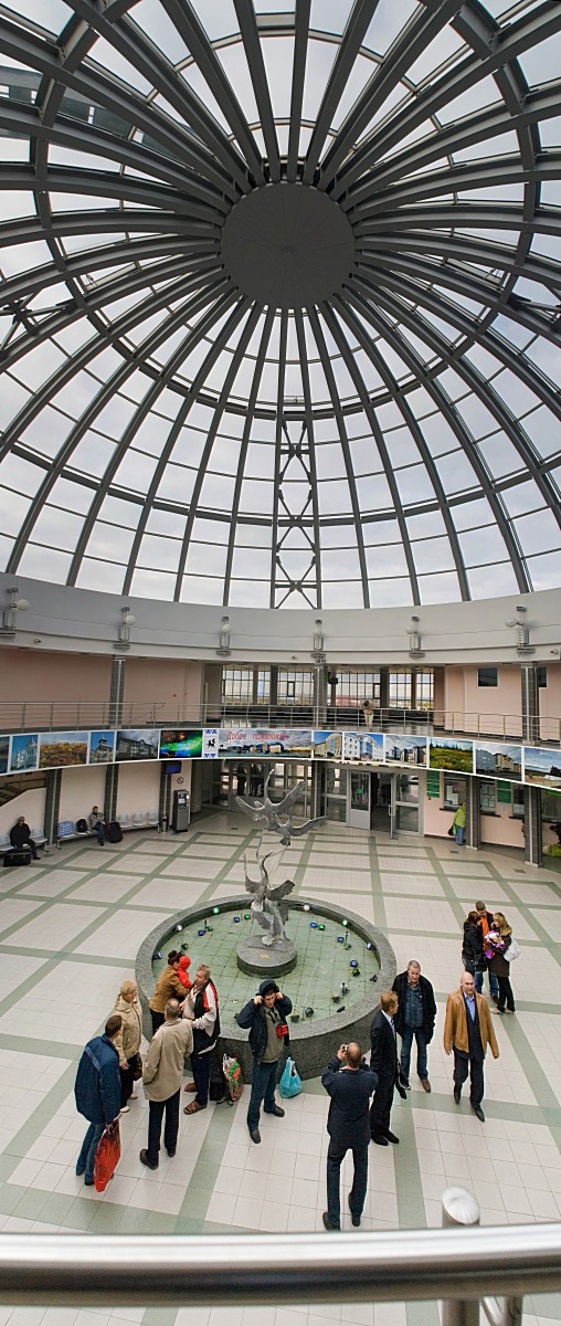 Interior of Salekhard Airport.